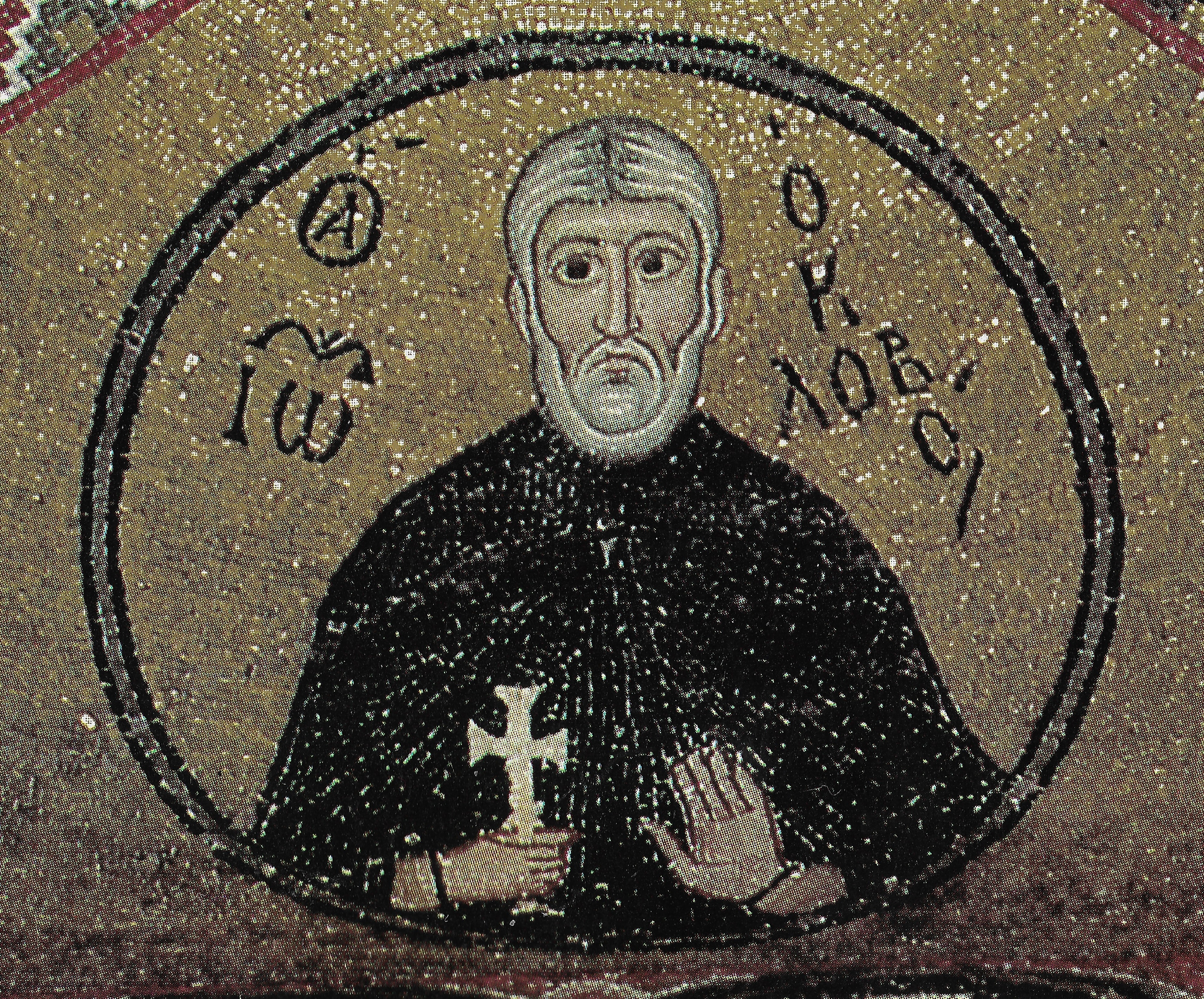 Hosios Loukas Monastery, Boeotia, Greece